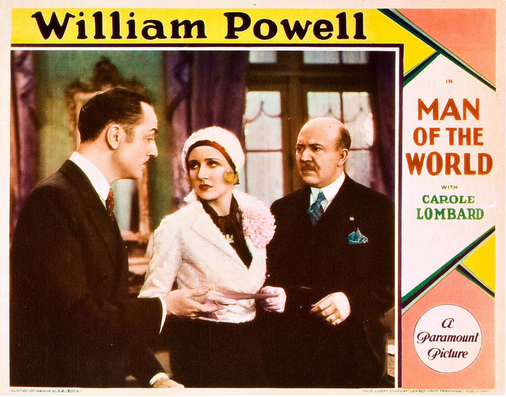 Lobby card for the American drama film Man of the World (1931).